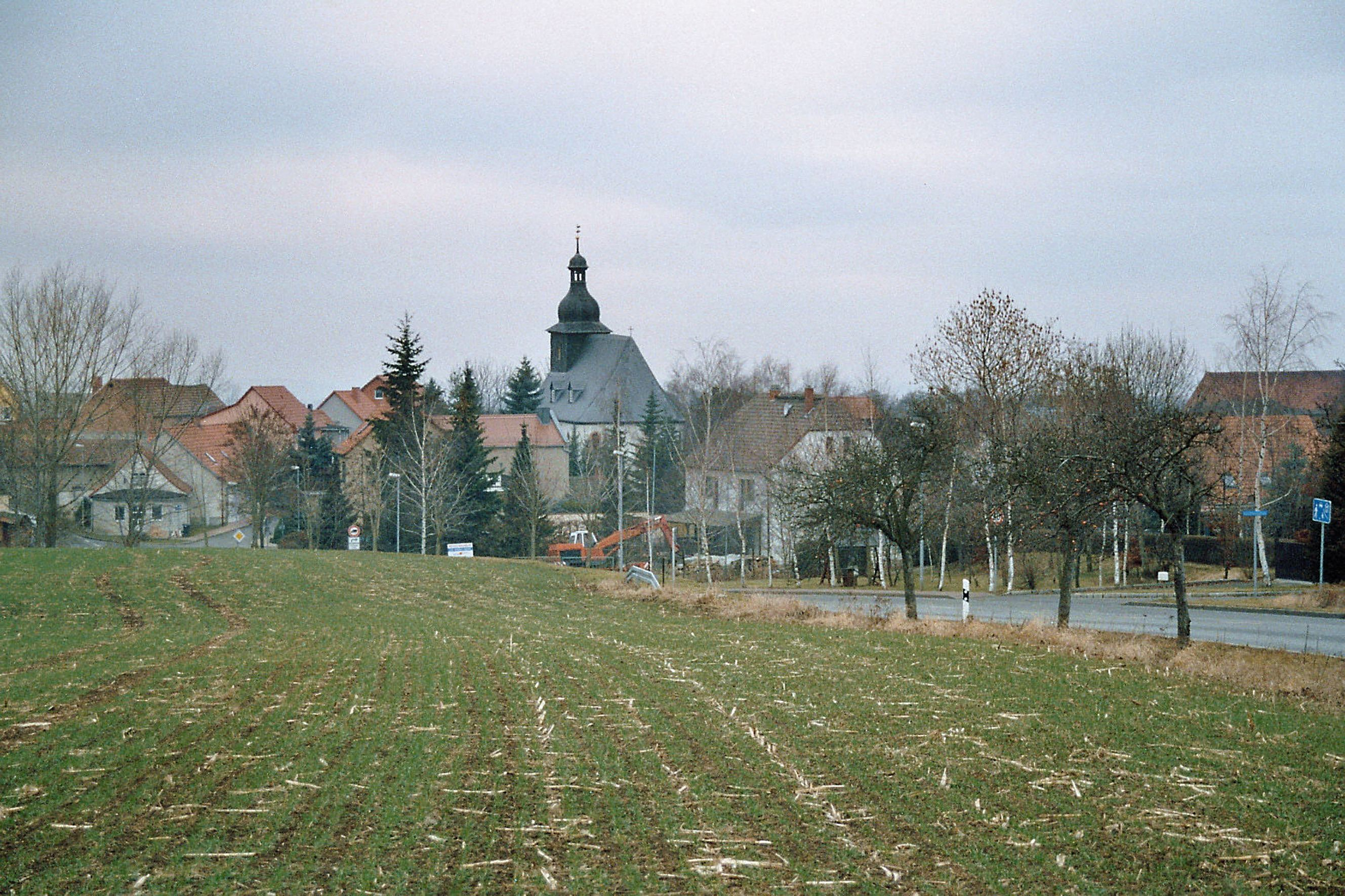 View to the village Ballstedt